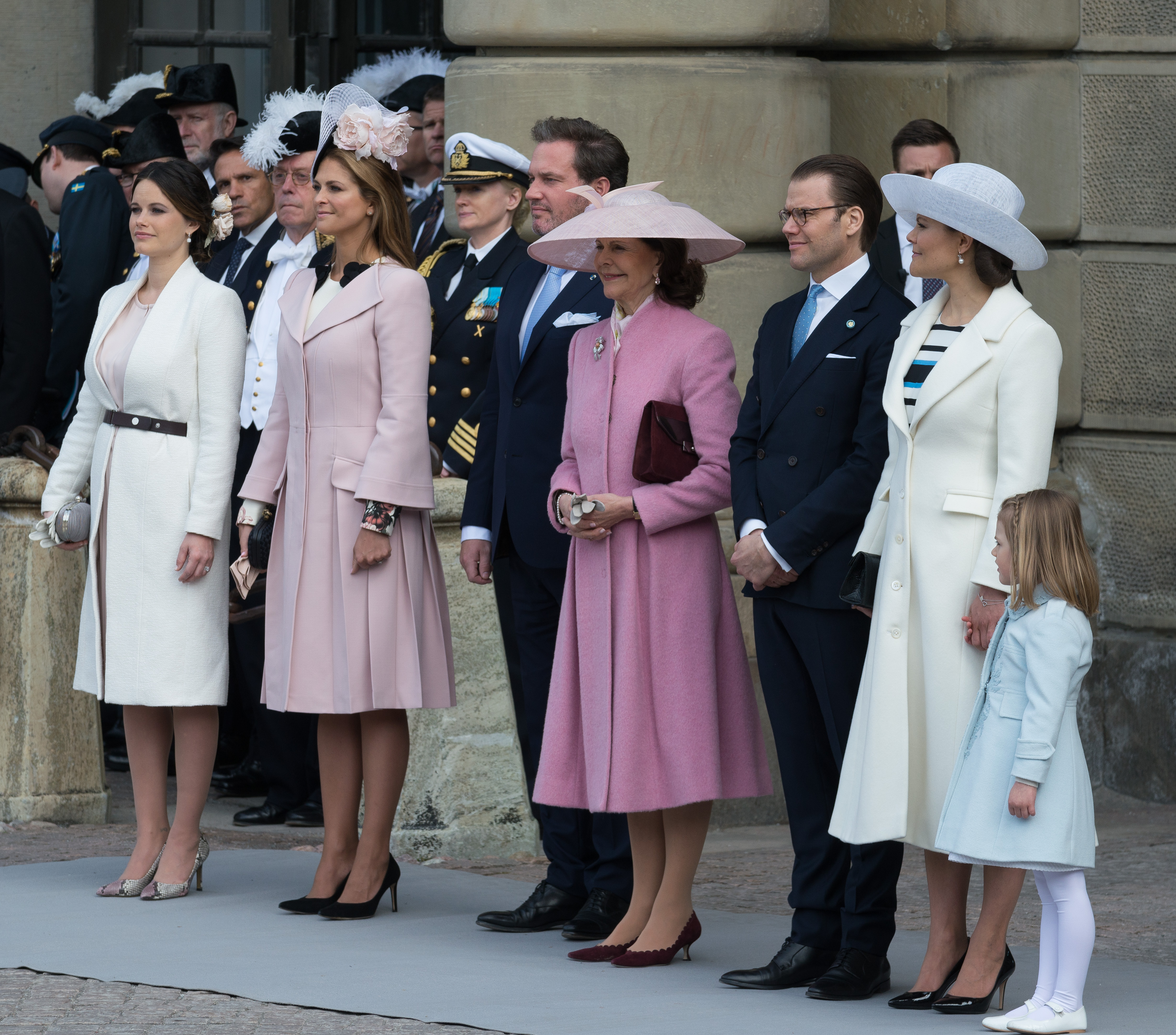 The celebration of Carl XVI Gustaf's 70th birthday in the outer courtyard of the Royal Palace in Stockholm April 30, 2016.